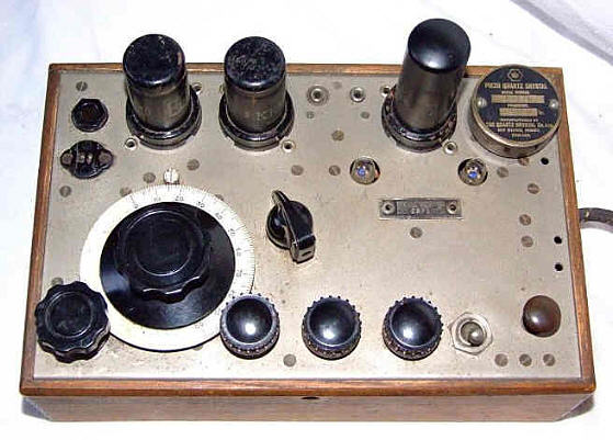 Paraset WW2 Spy radio